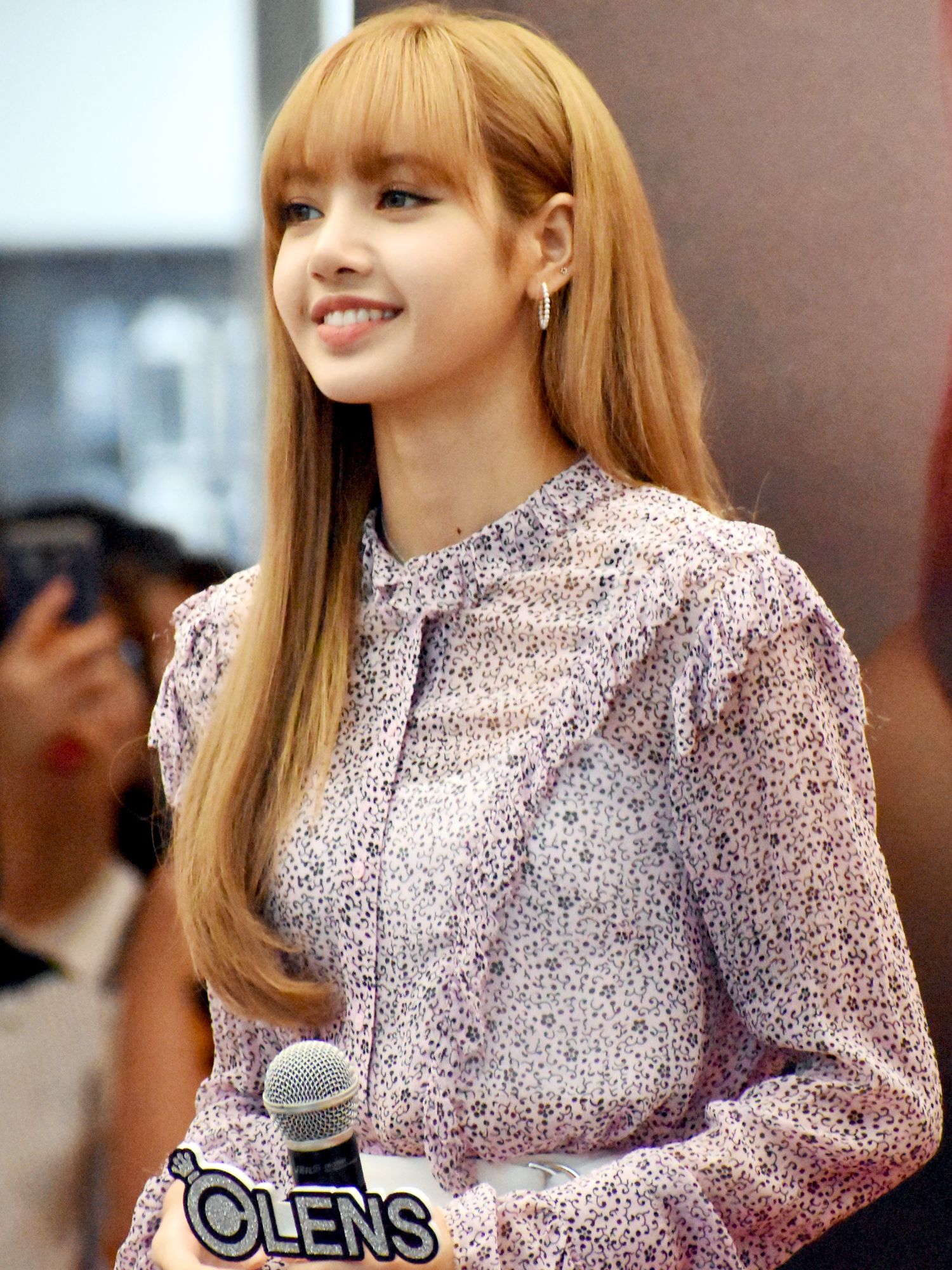 Lisa at a Black Pink fansign event at COEX's Live Plaza in Seoul on August 19, 2018.